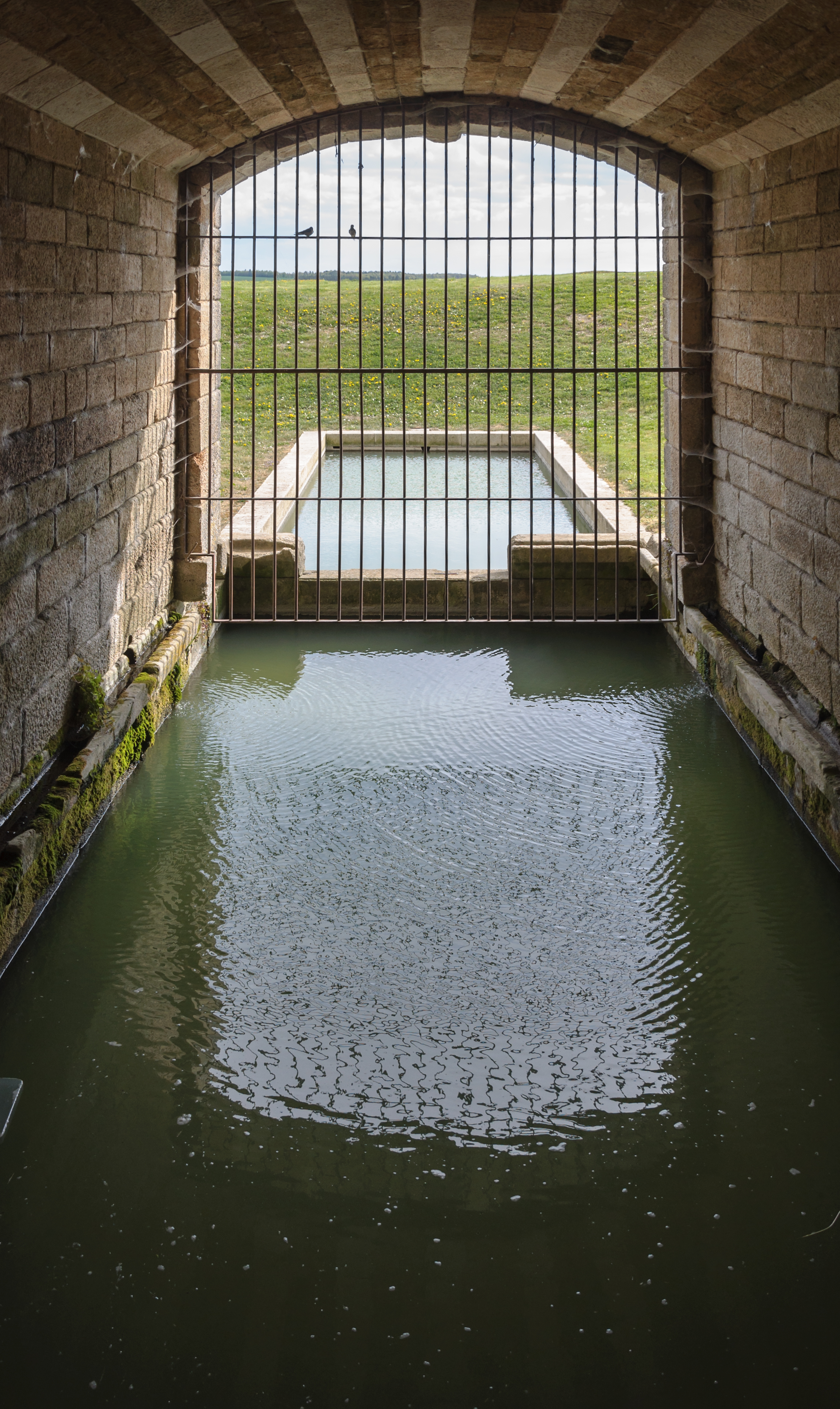 Château de Maulnes in Cruzy-le-Châtel, Burgundy, France: the nymphaeum, seen from inside.